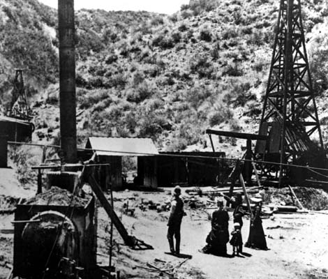 Historic photograph of Pico Canyon Well No. 4.